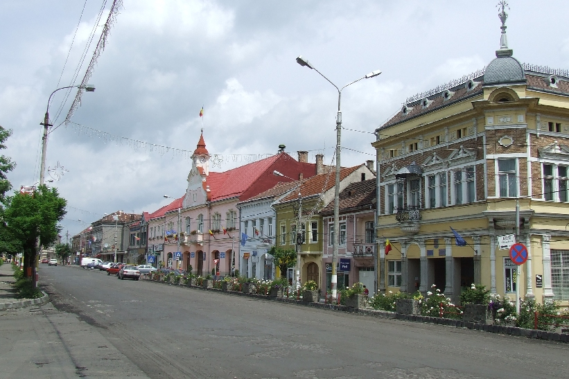 View from Reghin, Romania